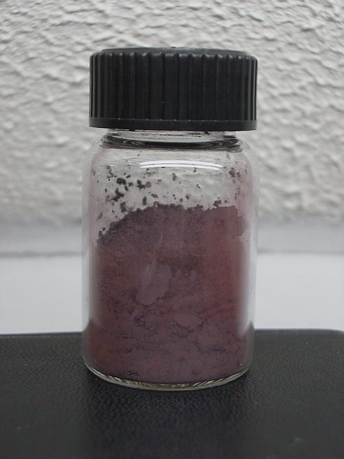 Iron(III) oxide, sintered powder